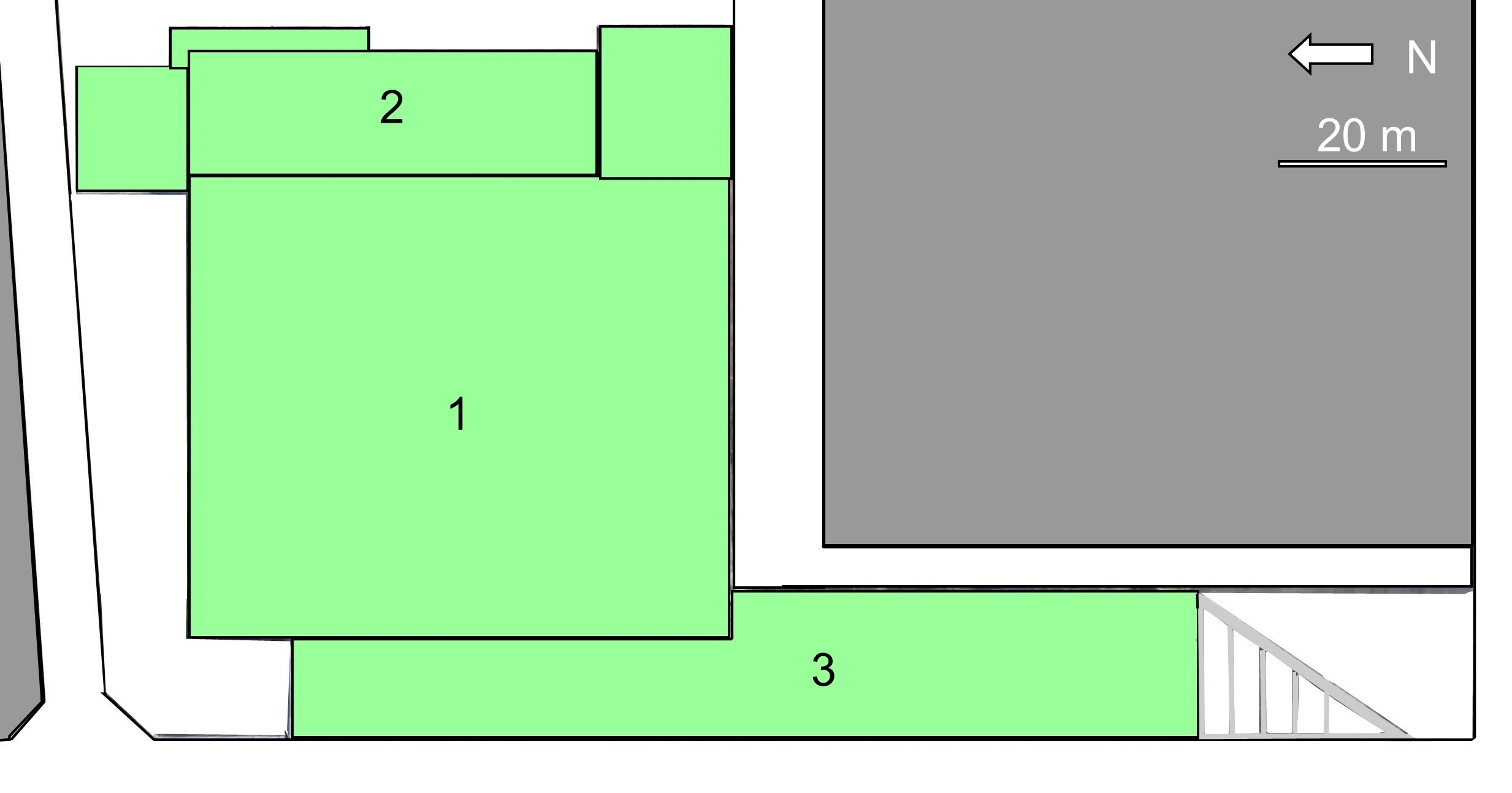 Nettaikan = Tropical greenhouse Itabashi (Tokyo) Layout